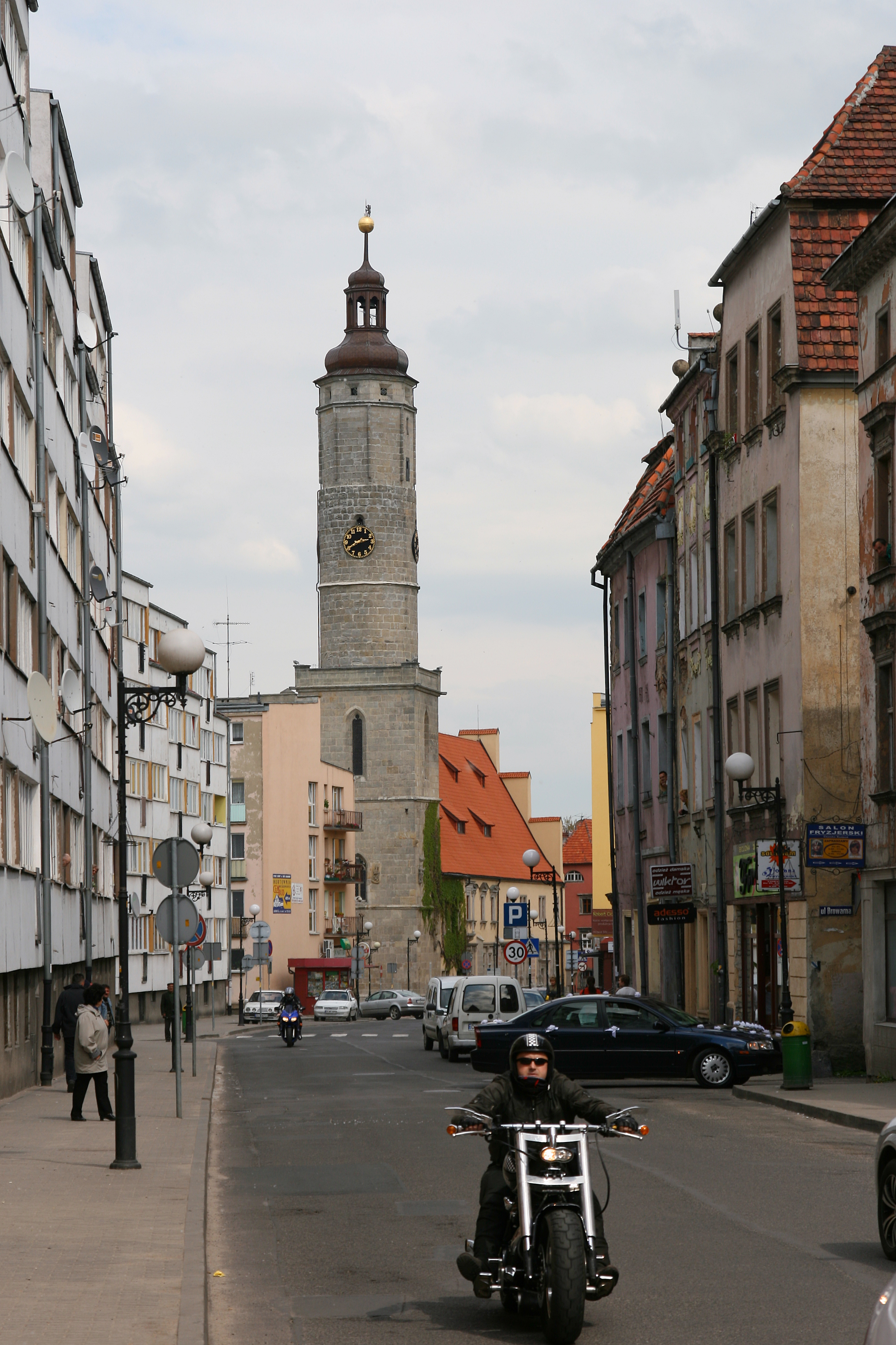 Town hall in Lwówek Śląski